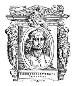 Illustratio from "Le Vite" by Giorgio Vasari, edition of 1568. For the artist portrayed see filename